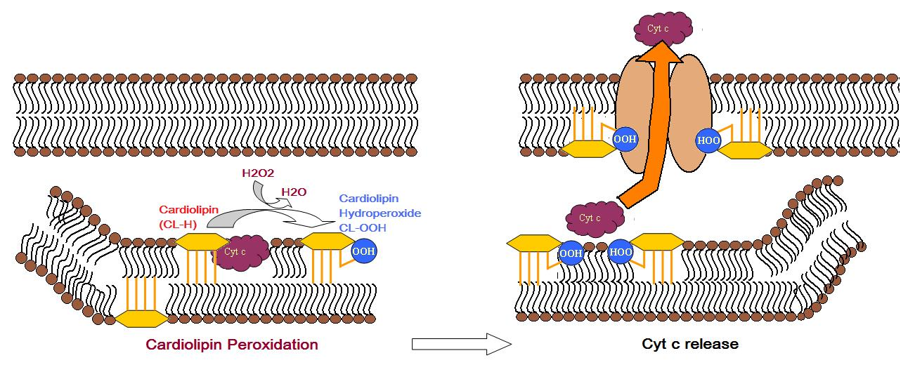 CL trigger Apotosis